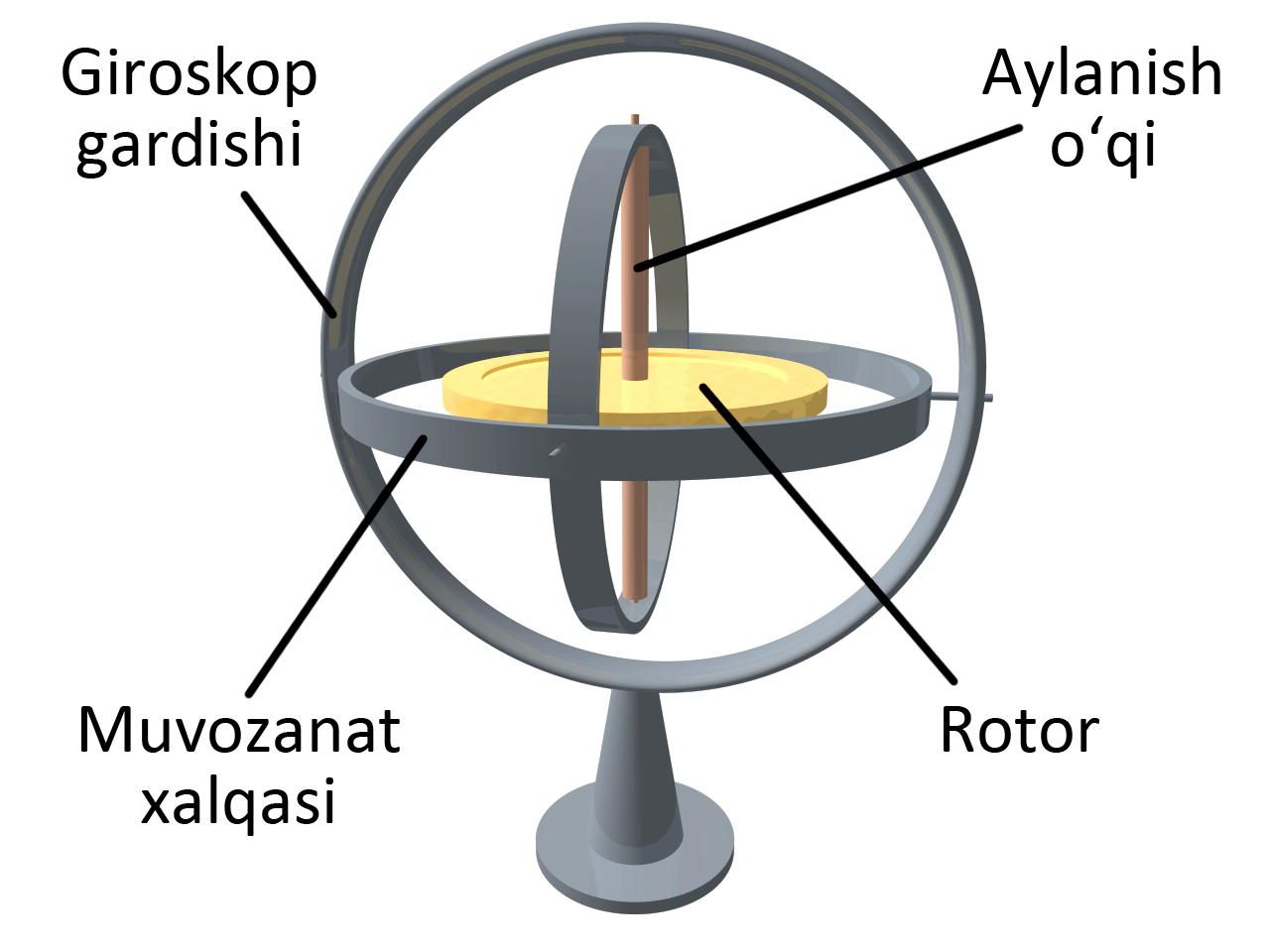 A gyroscope with Uzbek text. Based on File:3D Gyroscope.png.